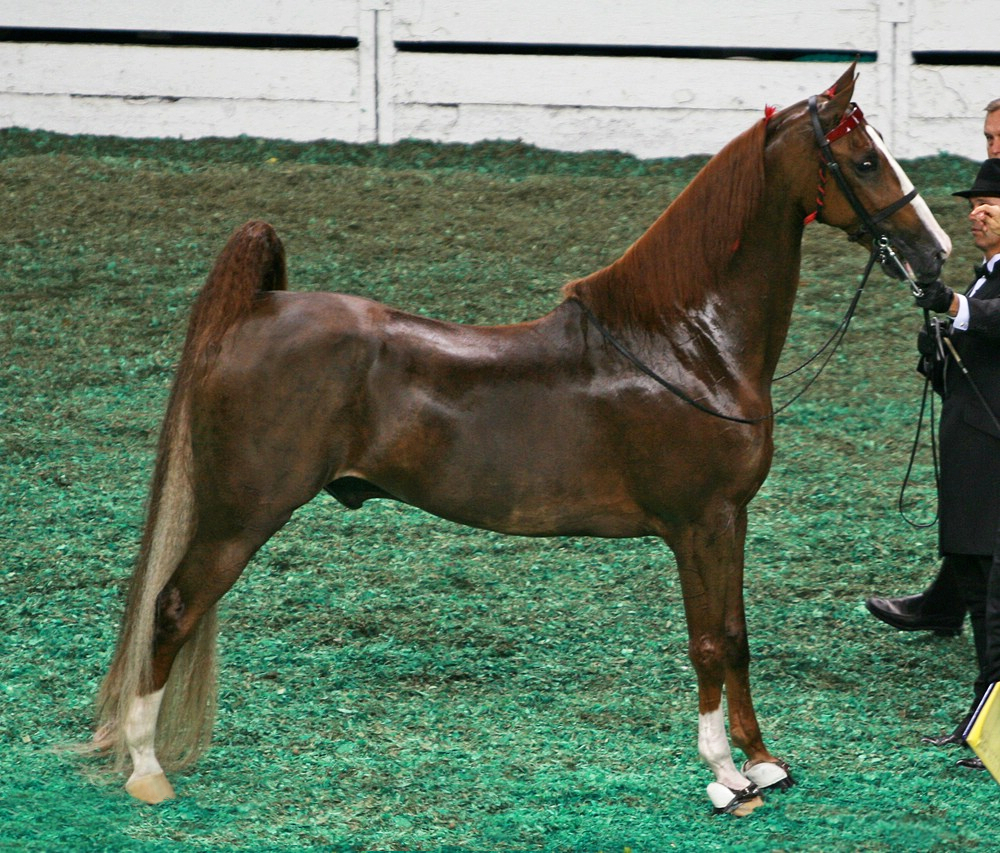 images by Heather Abounader